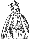 Portrait of Hurtado Pérez SJ (1526-1594), the first rector of University of Olomouc (today Czech Republic).